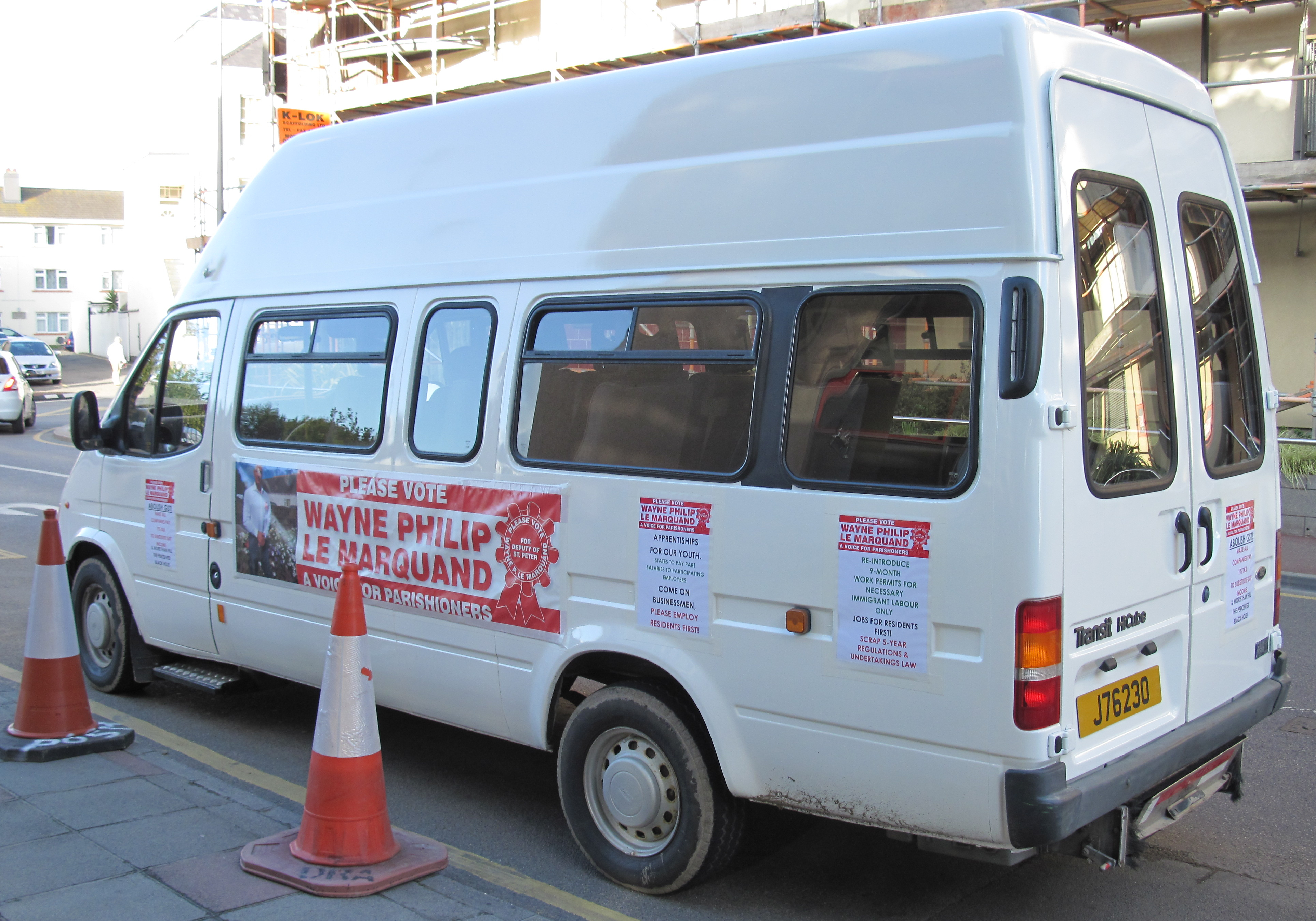 Election day, Jersey general election, 19 October 2011. Nrf: L's Êlections en Jèrri, 19 d'Octobre 2011